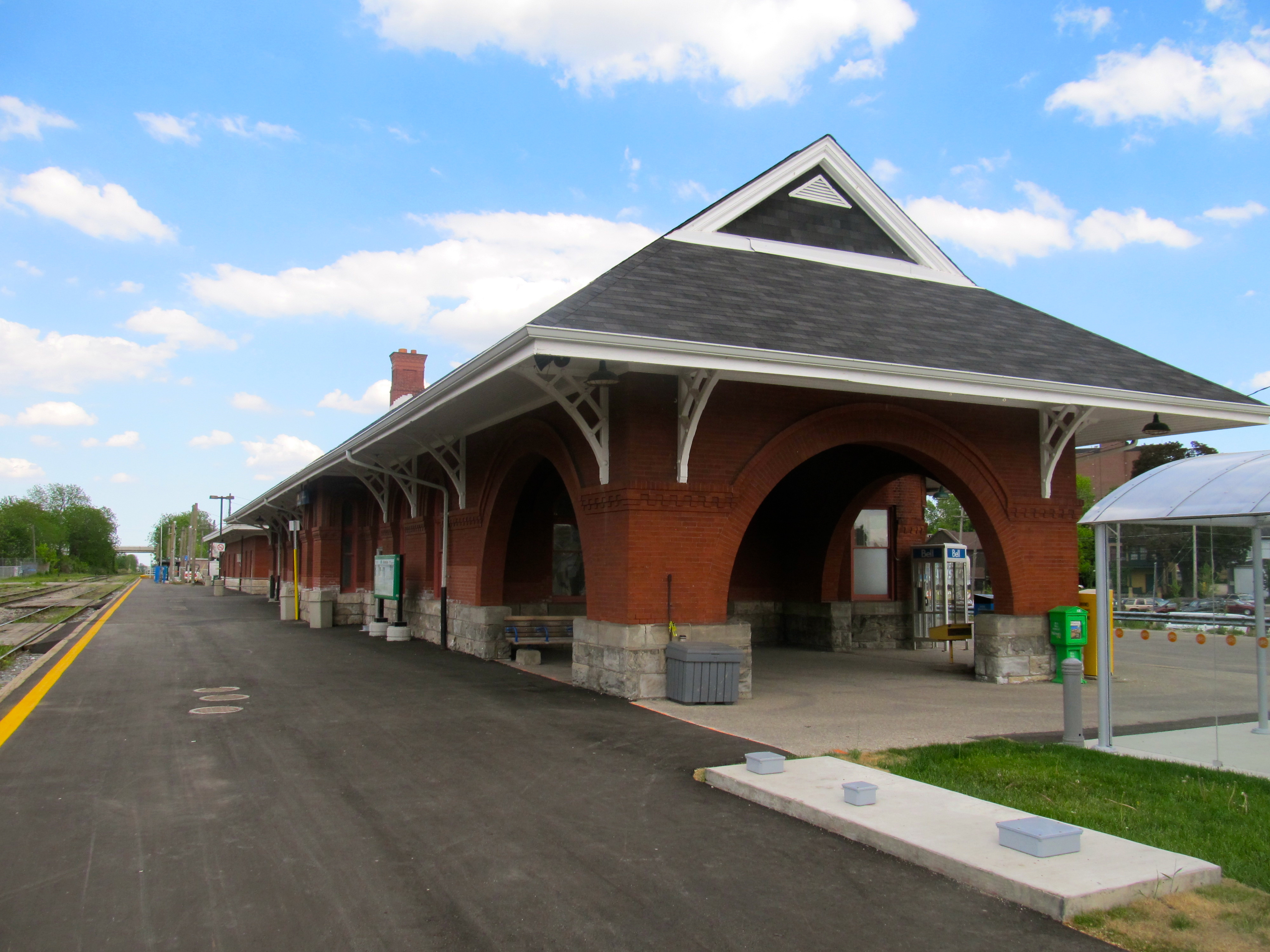 Train station in Kitchener, Ontario.